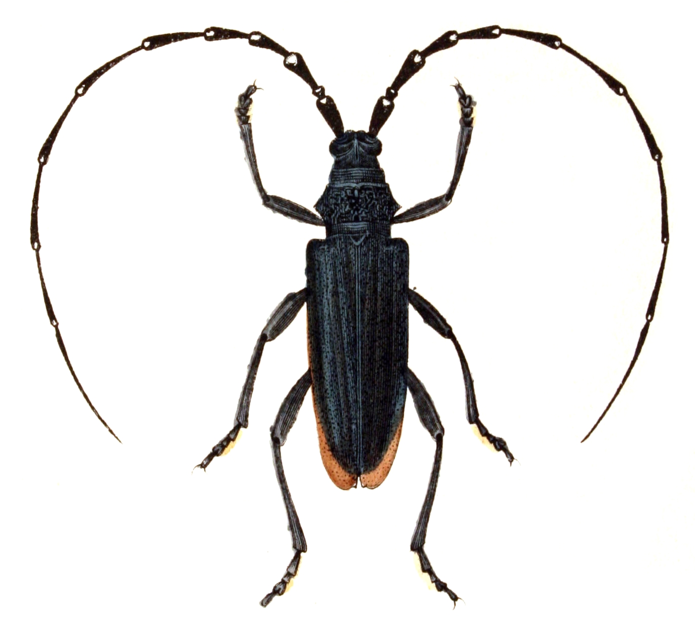 Cerambyx scopolii, from Calwer's Käferbuch, Table 36, Picture 1. Taxonomy was updated to 2008, using mostly the sites Fauna Europaea and BioLib. Please contact Sarefo if the determination is wrong!